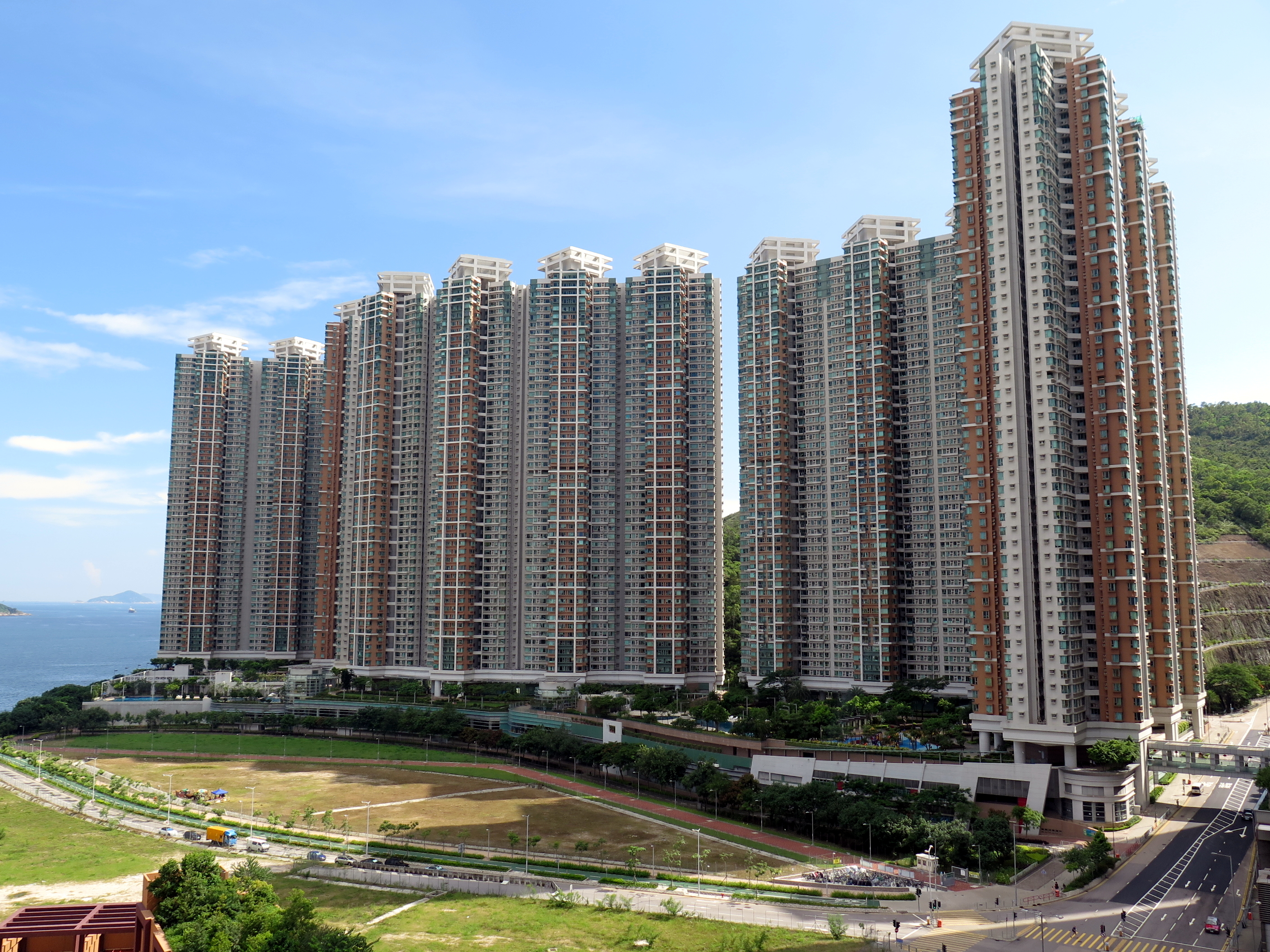 Ocean Shore